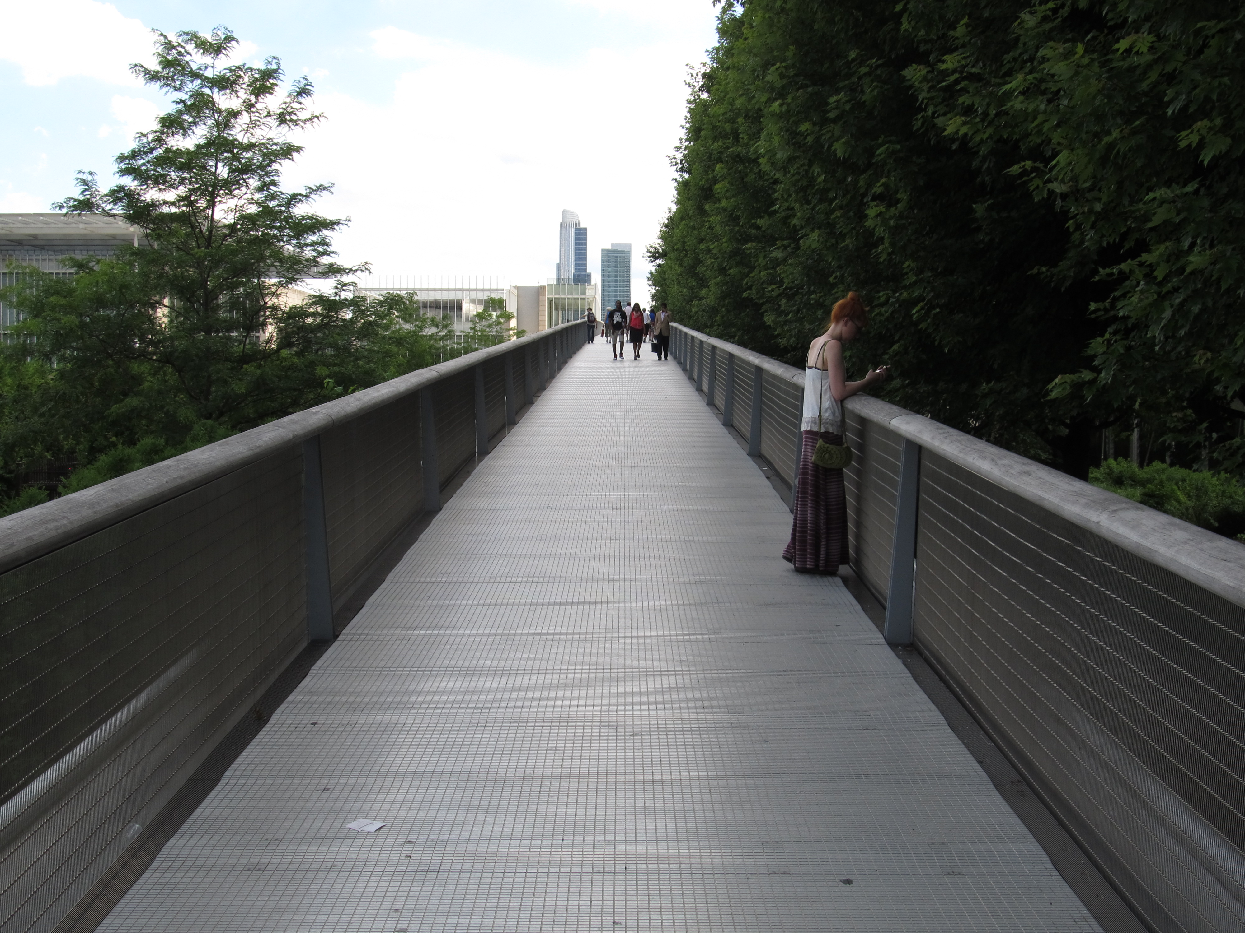 The Nichols Bridgeway is a pedestrian bridge located in Chicago, Illinois. The bridge begins at the Great Lawn of Millennium Park, crosses over Monroe Street and connects to the third floor of the West Pavilion of the Modern Wing, the Art Institute of Chicago's newest wing. The bridge opened May 16, 2009. Designed by Renzo Piano, the architect of the Modern Wing, the bridge is approximately 620 ft (190 m) long and 15 ft (4.6 m) wide. The bottom of the Bridgeway is made of white, painted structural steel, the floor is made of aluminum planking and the 42" tall railings are steel set atop stainless steel mesh. The Bridgeway features anti-slip walkways and heating elements to prevent the formation of ice and meets ADA standards for universal accessibility. The bridge is named after museum donors Alexandra and John Nichols. The bridge design was inspired by the hull of a boat.